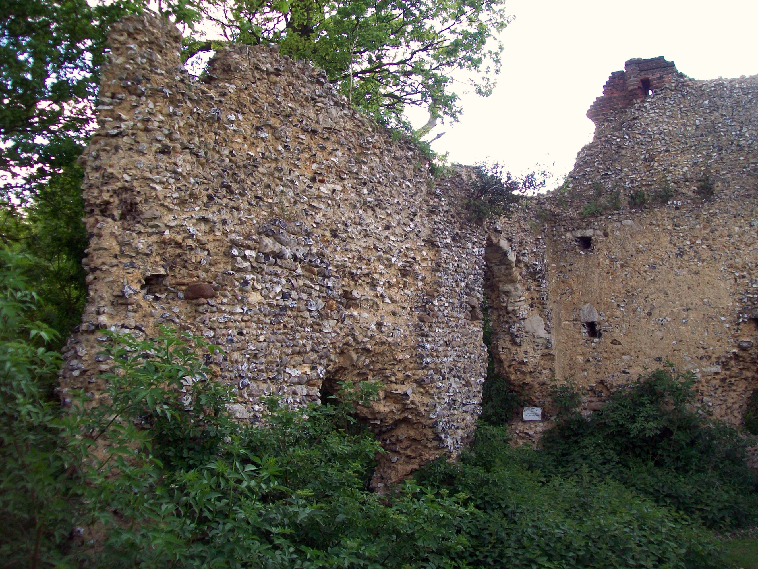 So on my travels today I came across Minsden Chapel and I was chuffed to find I could actually access it via a stile and a short path. I think I should have got some better photos but I just took a few random shots and left. When I got home I discovered it's supposed to be haunted. 28 May 2010, Hertfordshire More info here.